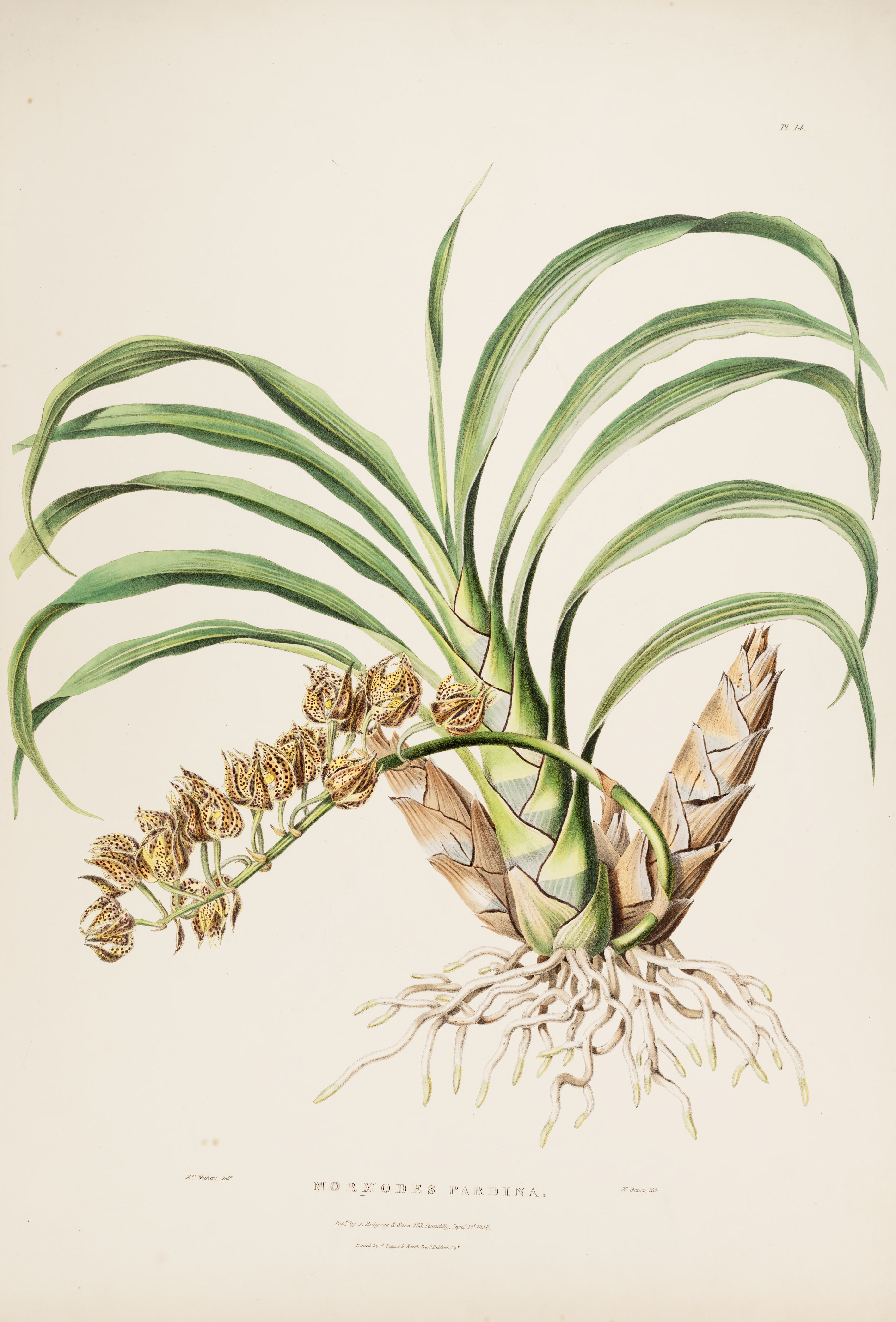 Illustration of Mormodes maculata var. maculata (as syn. Mormodes pardina)